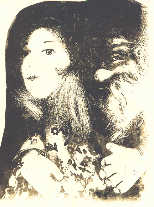 The two 20th century puppets shown were directly copied on a photocopy (Xerox) machine. The photocopy was transferred to a lithographic stone by the artist/photographer/printmaker and later, in 2002 photographed by the artist. Xerox art Puppet